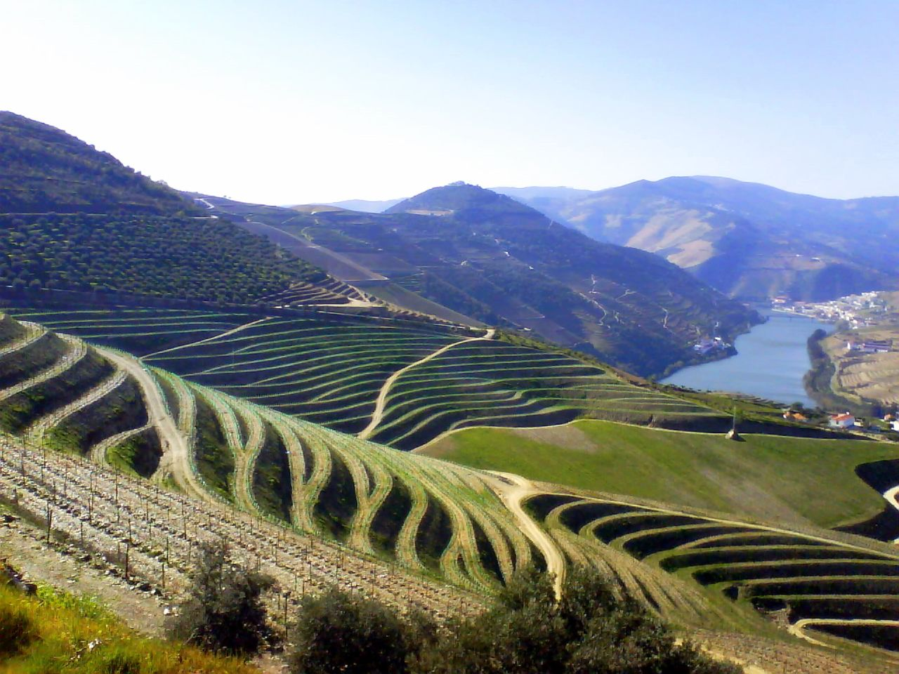 From Oporto, Portugal, to the interior. Always next to the river Douro. The site of production of Oporto wine.